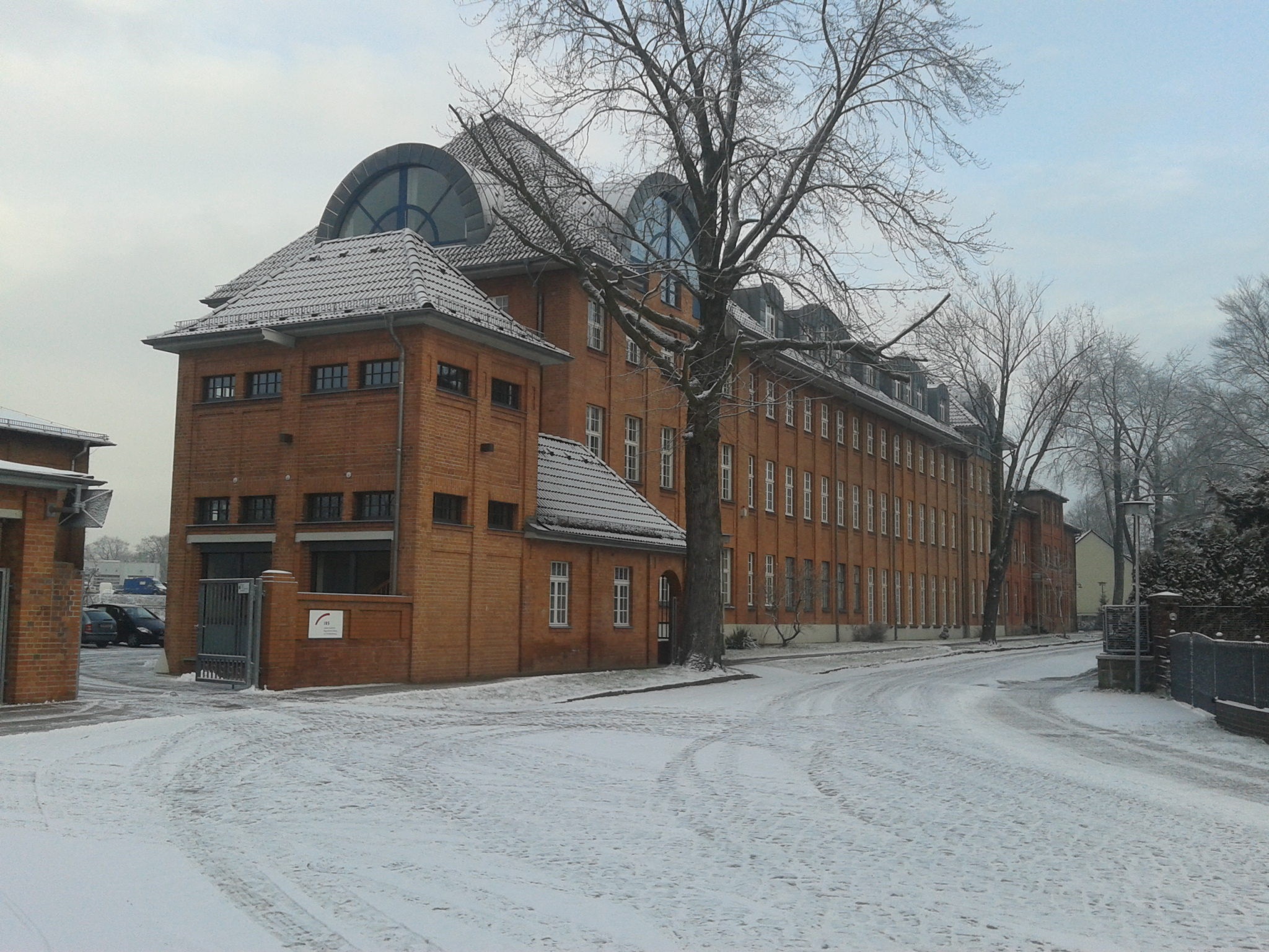 Leibniz Institute for Regional Development and Structural Planning, former facilities of the plastic manufacturer Bakelite; view from the street